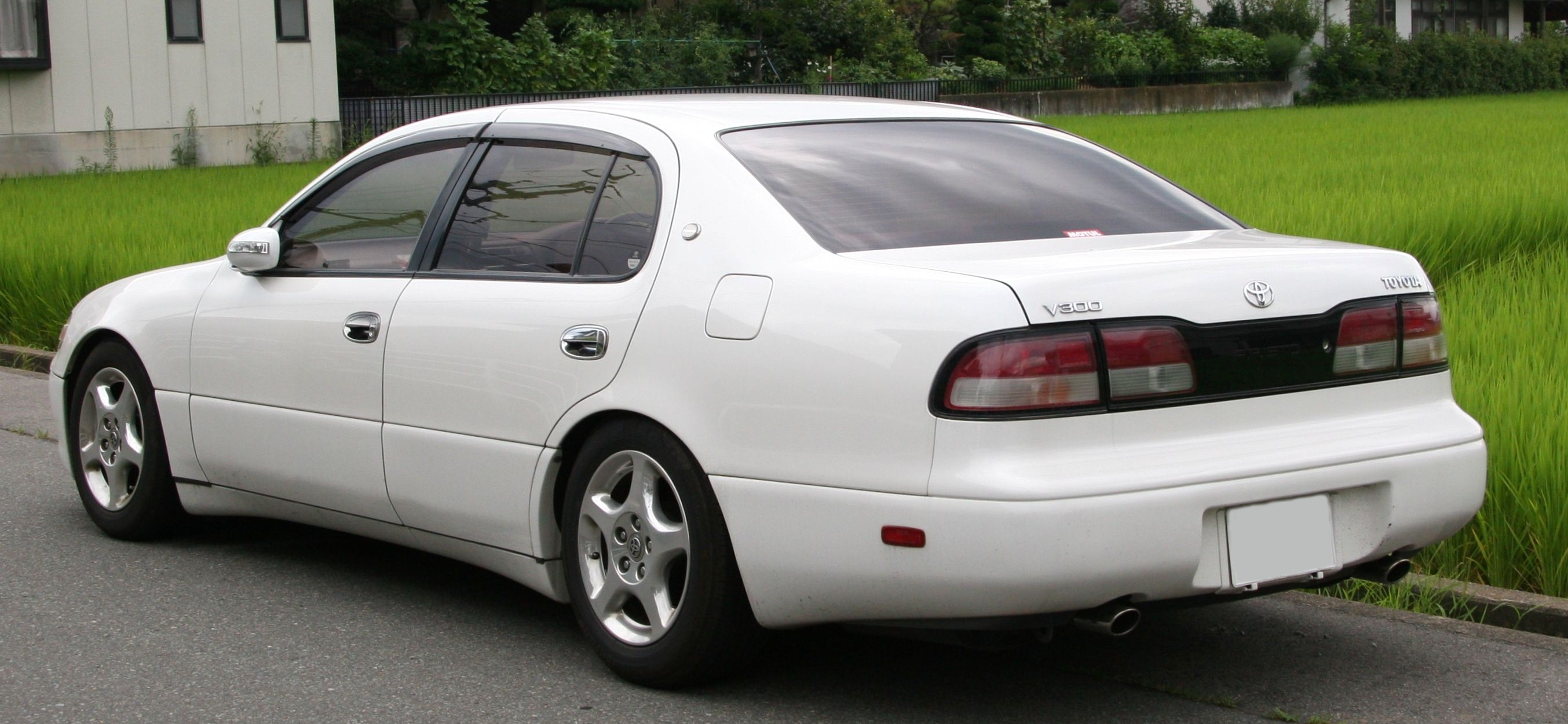 Toyota Aristo